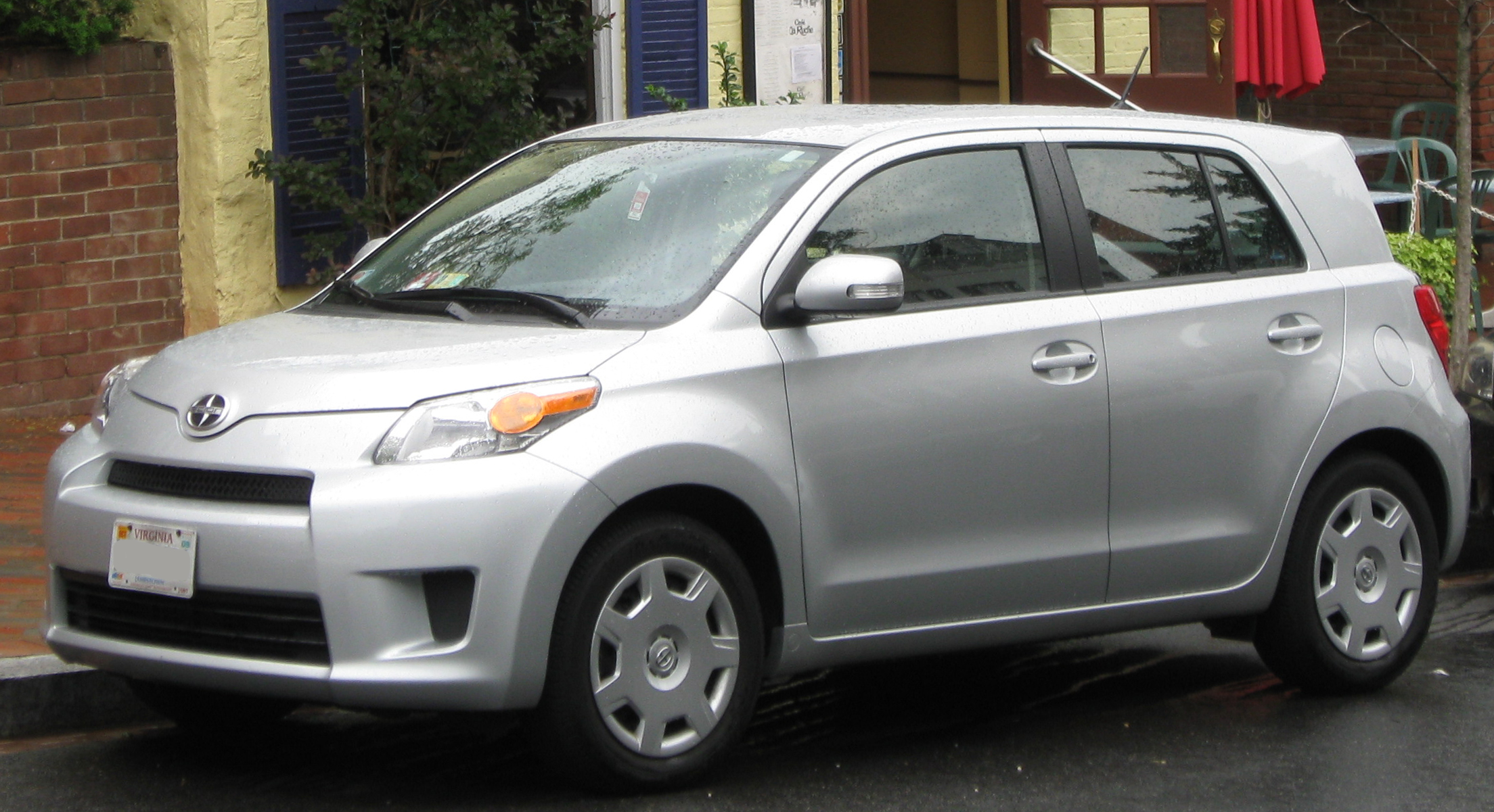 2007-2009 Scion xD photographed in Washington, D.C., USA.